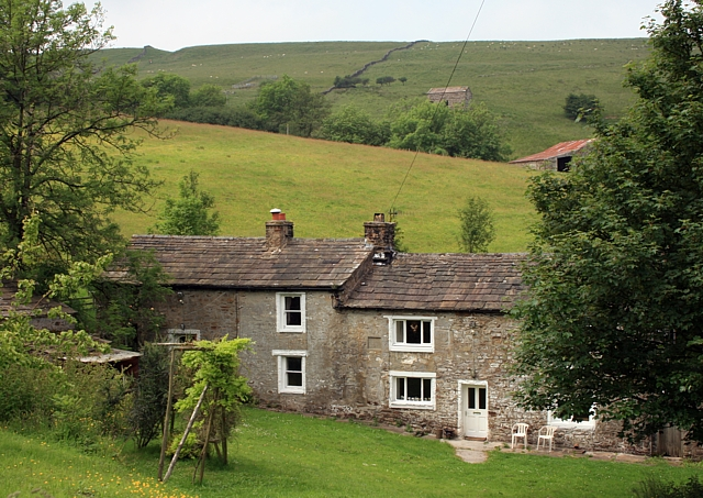 Countersett Hall Seventeenth century home of Richard Robinson, a pioneering Quaker in this area.